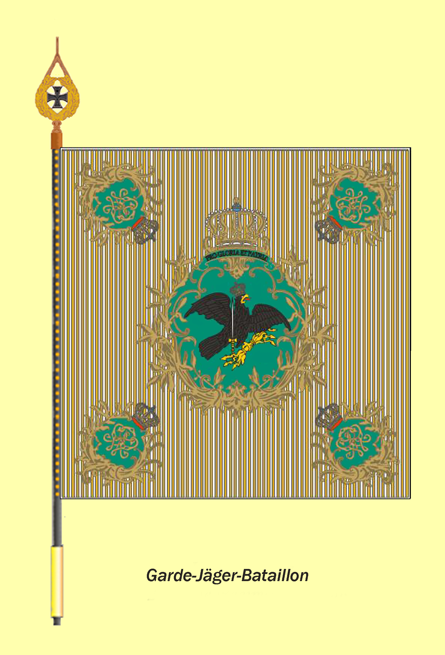 Colors of the royal prussian Guard-Rifles